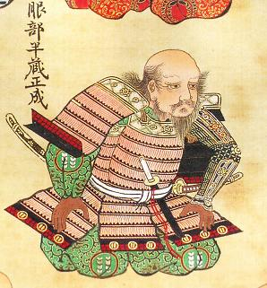 A portrait of Hattori Masanari aka Hattori Hanzo from the 17th century.